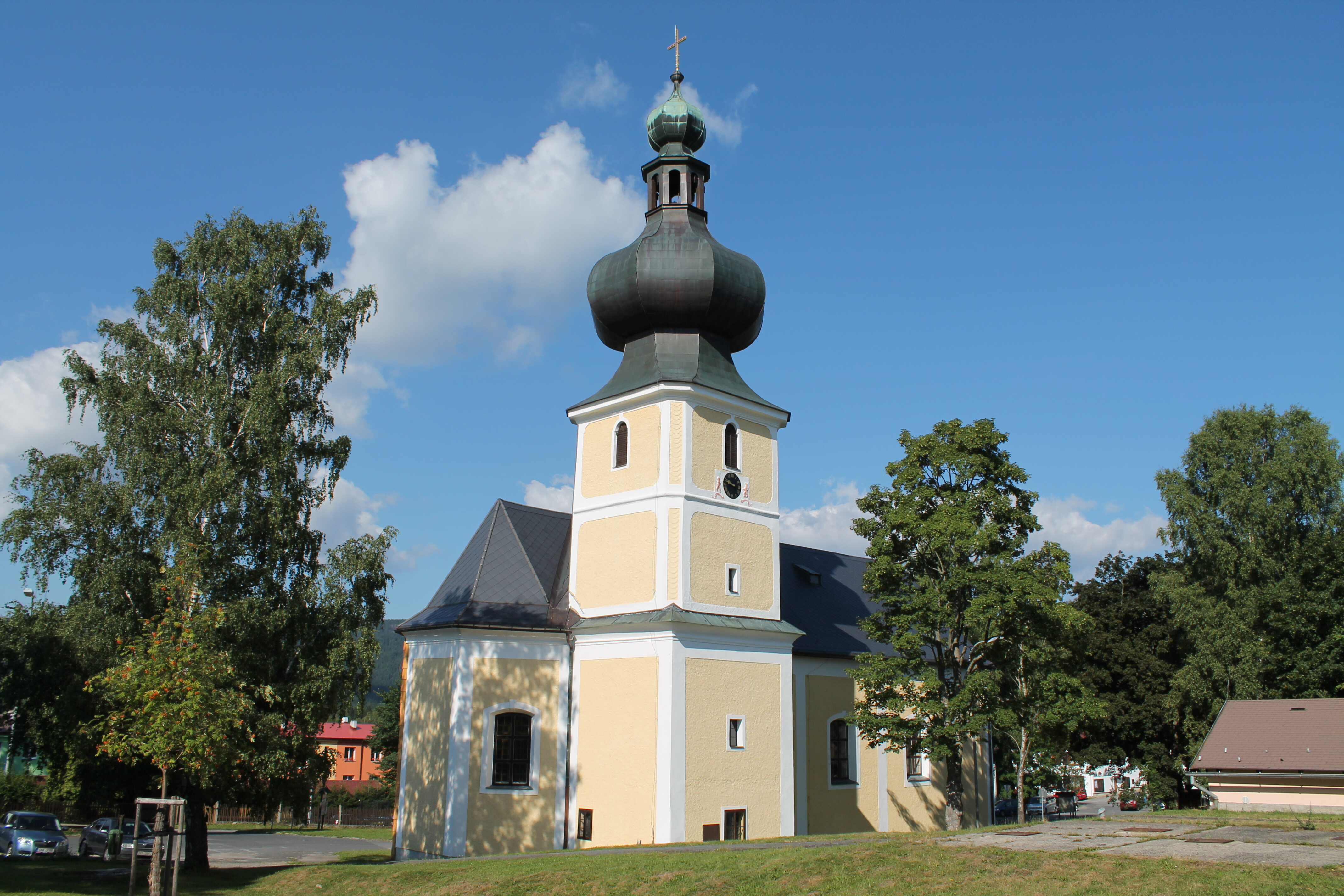 Church of Holy Trinity, Srní, Klatovy District, Czech Republic